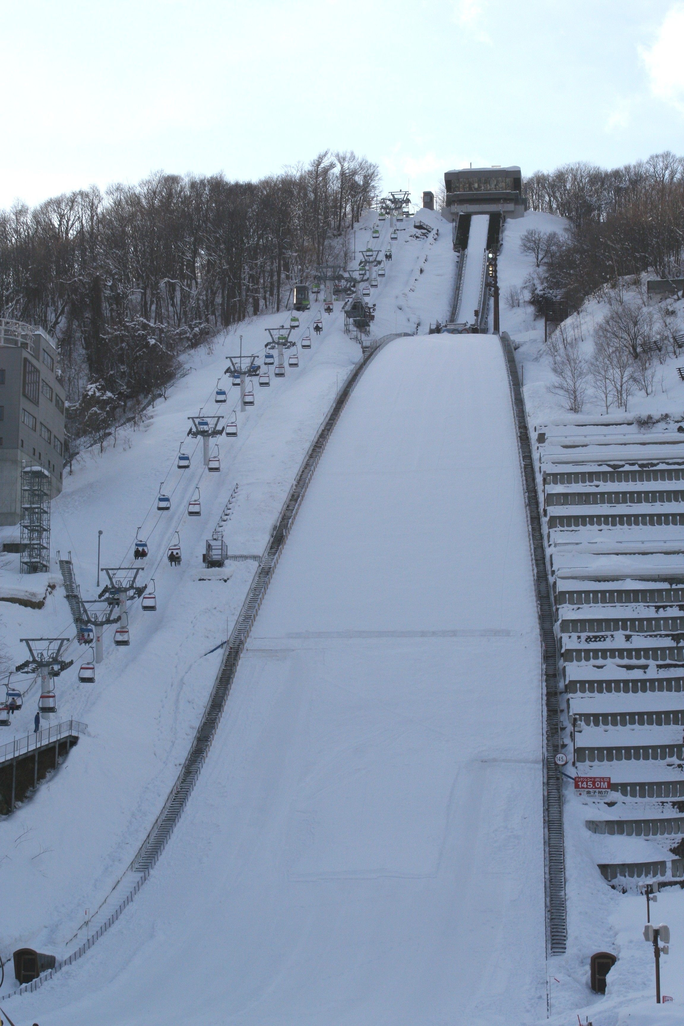 View of Okurayama Ski Jumping Tower in Sapporo, Japan, Site of Olympic Winter Games in 1972 and Nordic World Ski Championships 2007